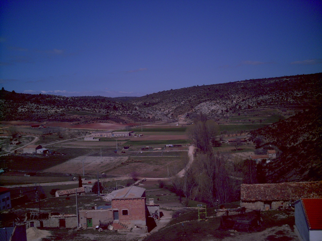 A view of San Juan Mount, on Henarejos, Cuenca.